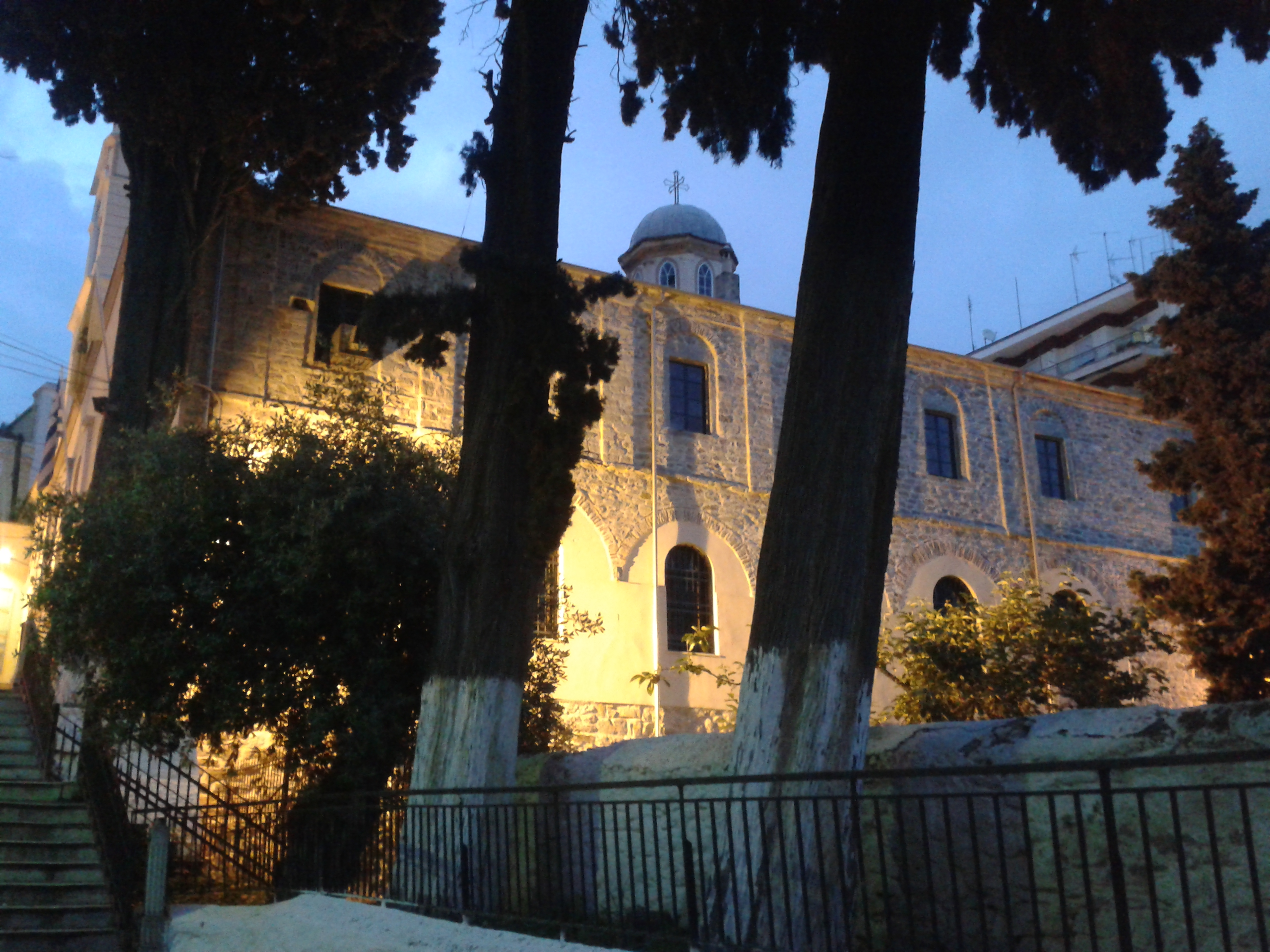 St. John the Baptist Church in Kavala.